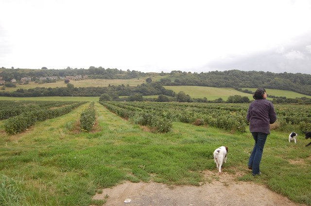 Blackcurrant field, Stoke Sub Hamdon This view of a field of blackcurrants on New Road looks across towards Ham Hill.